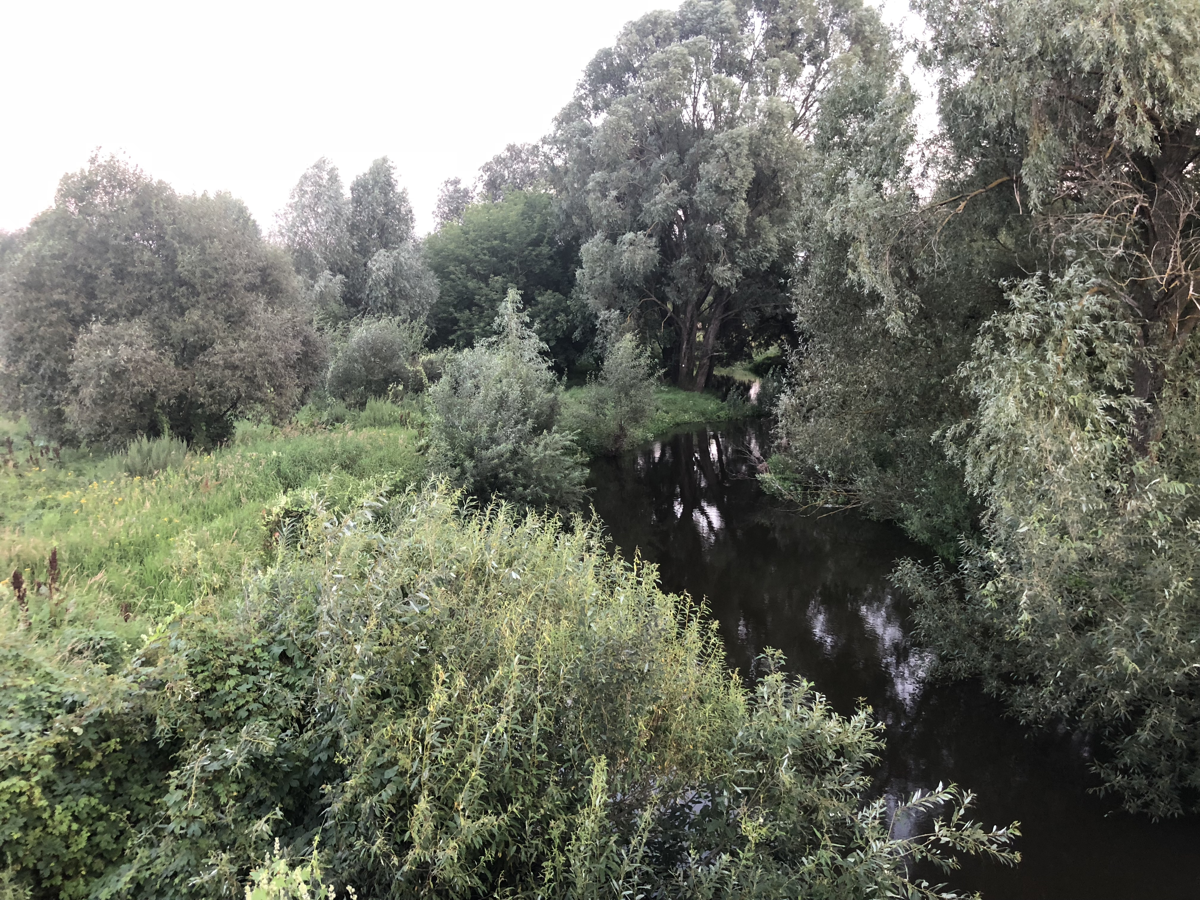 Uza river, Gomel region, Belarus, 2018 july